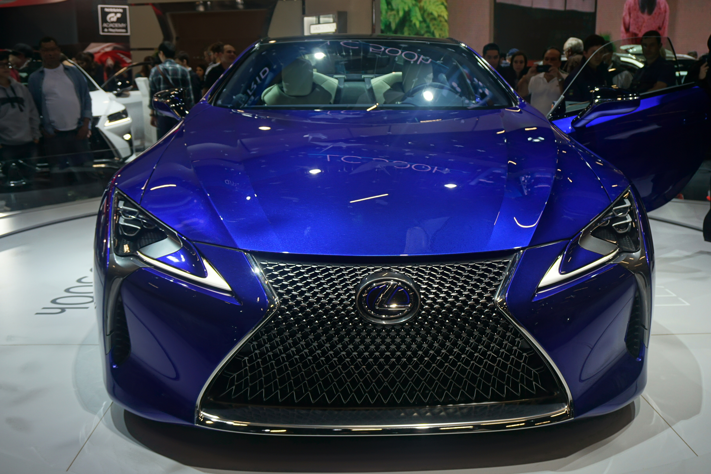 Lexus LC 500h hybrid car exhibited at the Salão Internacional do Automóvel 2016 São Paulo, Brazil.